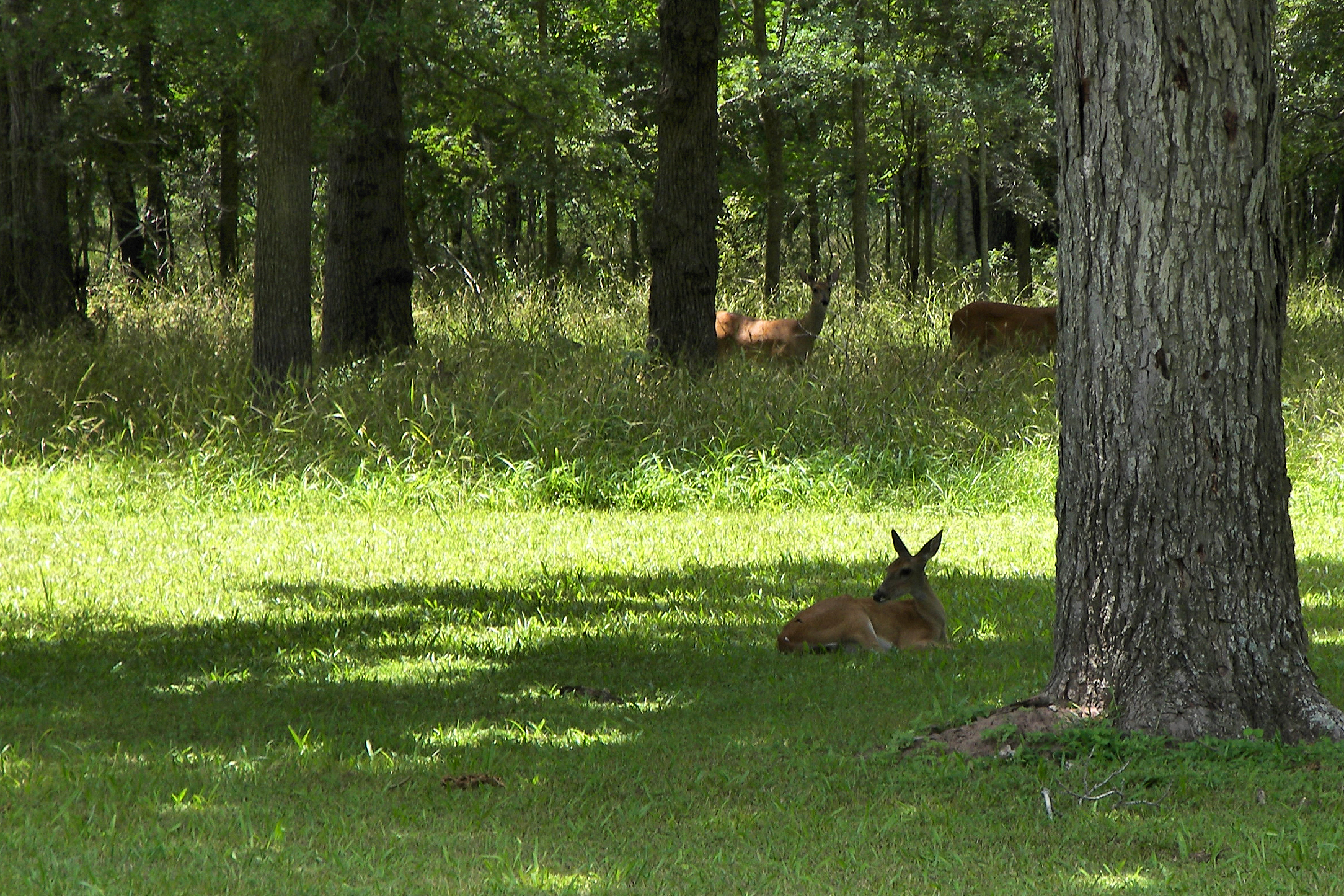 White-tailed deer (Odocoileus virginianus) are plentiful in Stephen F. Austin State Park in Austin County, Texas, United States.